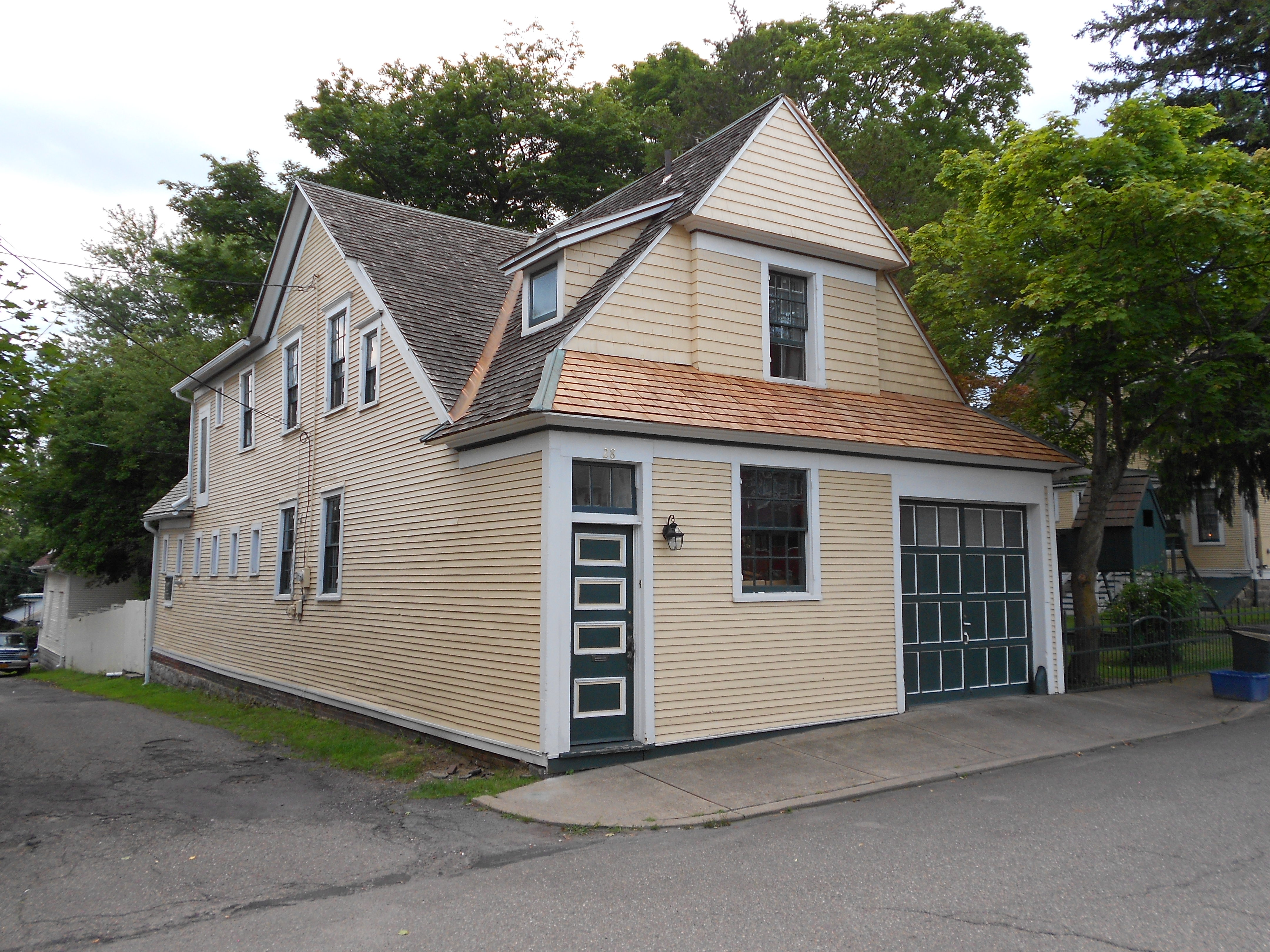 Carriage House of Israel Platt Pardee Mansion on the NRHP since January 12, 1984.At 235 North Laurel Street and 28 Aspen Street (carriage house) in Hazleton, Luzerne County, Pennsylvania. Designed by architect George Franklin Barber